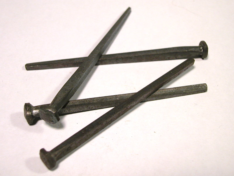 Picture of cut nail ... klippspik in Swedish.